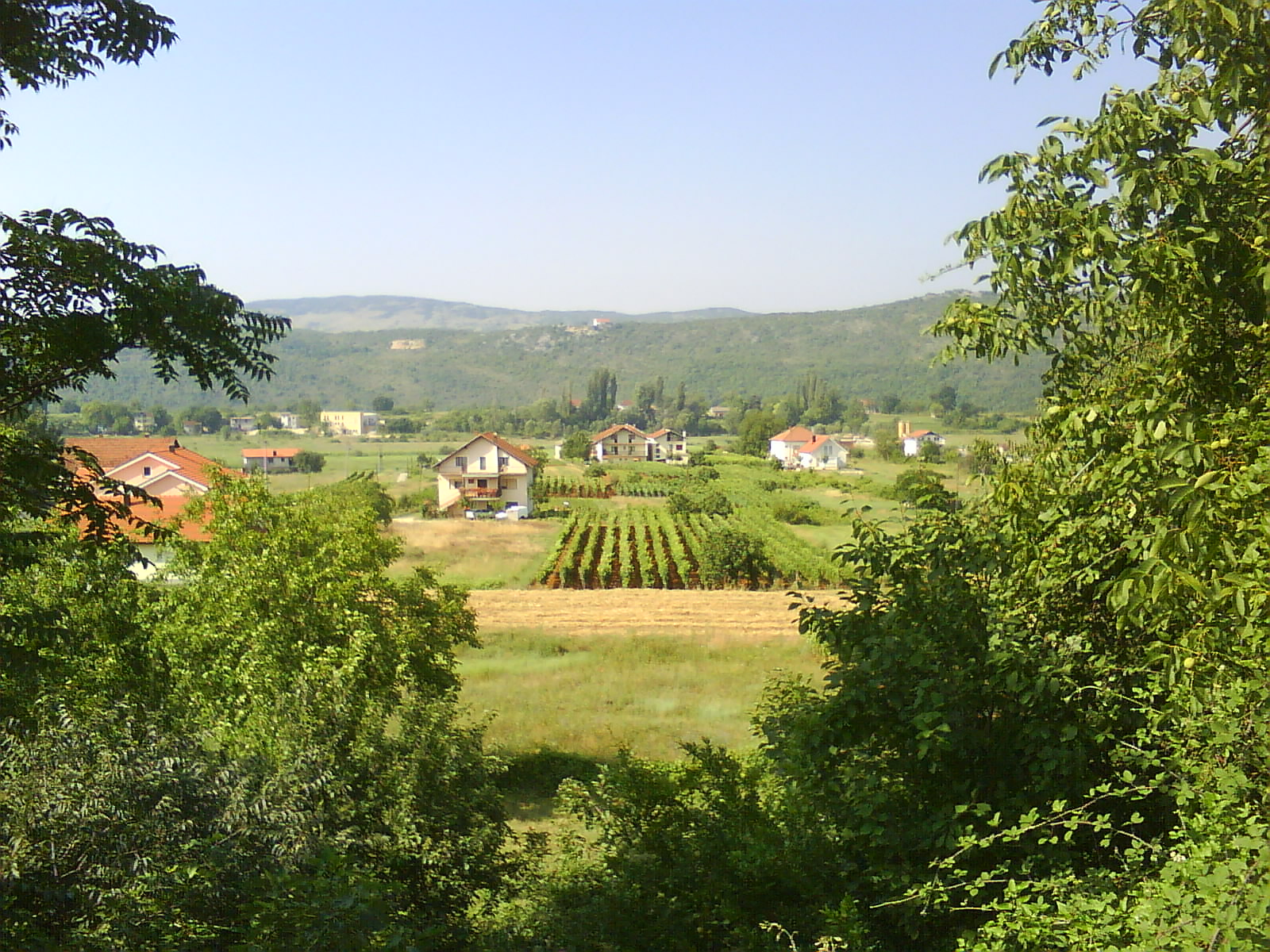 City of Grude }